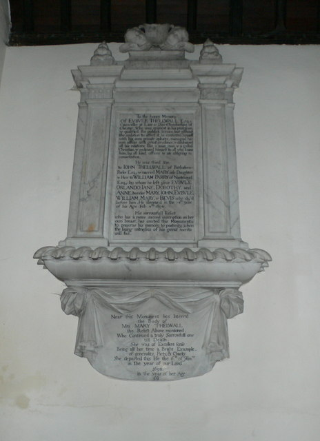 Memorial to Eubule Thellwall, Llanelidan church Erected by his widow, Mary, "to preserve his memory to posterity when the living witnesses of his great merits will fail". He died in 1694, in his 74th year, with six of his eleven children pre-deceasing him.